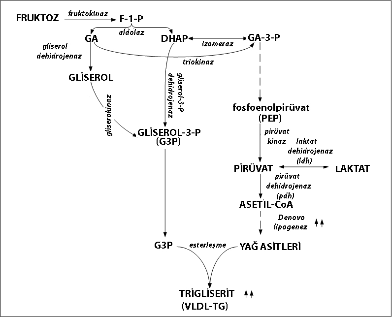 Fructose metabolism to triglyceride